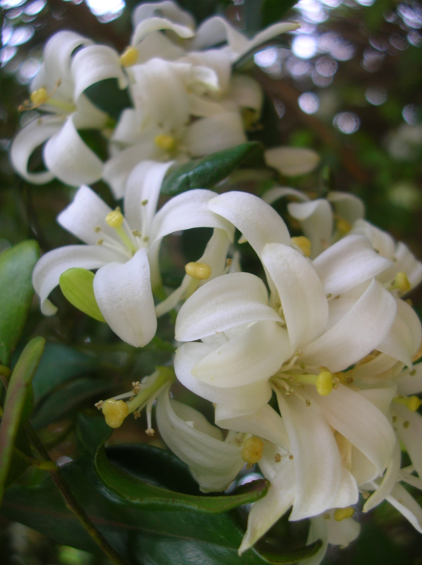 Murraya paniculata (flowers). Location: Maui, Makawao